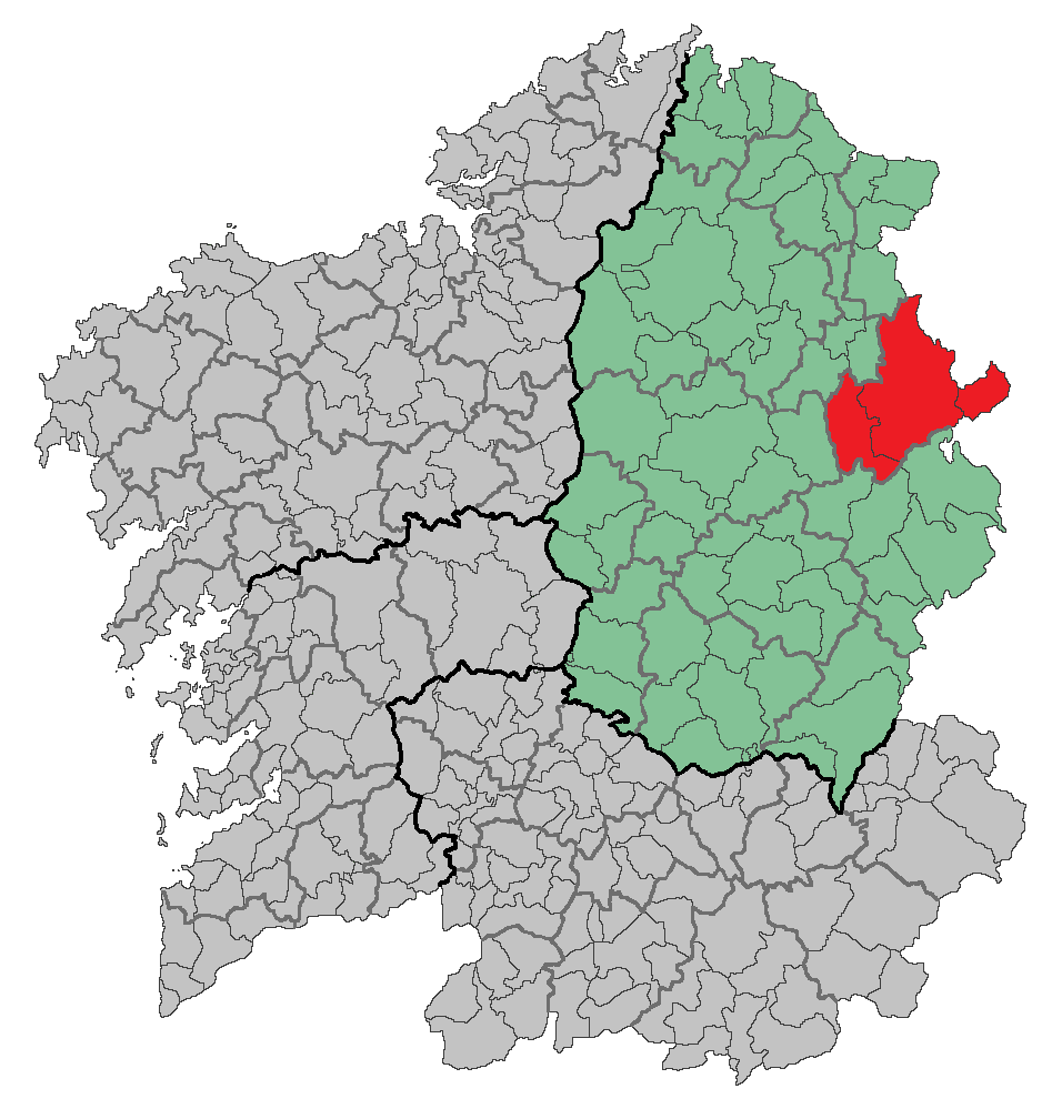 Region of Galicia (Spain)Based in: Image:Location of Betanzos.png Source: Designed by Leoplus. Original picture, designed by Caiser over a work made by Alyssalover.